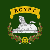 Badge of the Sphinx as typically displayed on a British Army Regimental Colour; from image caption at Egypt (battle honour) (oldid=848213544) .